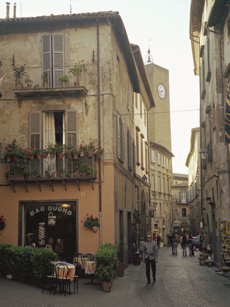 Street, Orvieto, Umbria, Italy